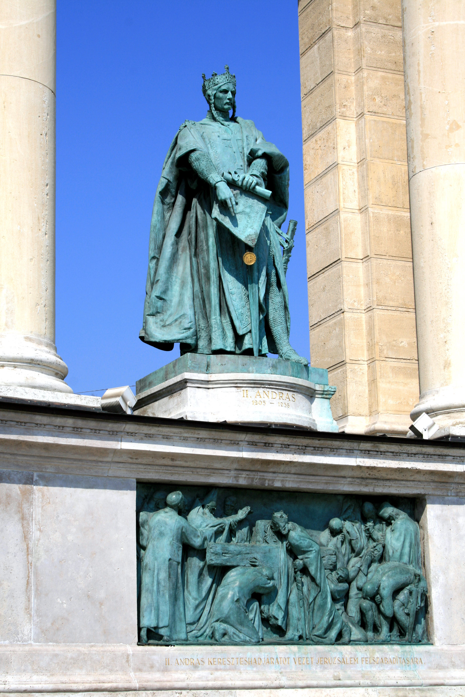 Statue of Andrew II of Hungary or II. Andras, Millenium Monument on Heroes' square, Budapest, Budapest, Hungary